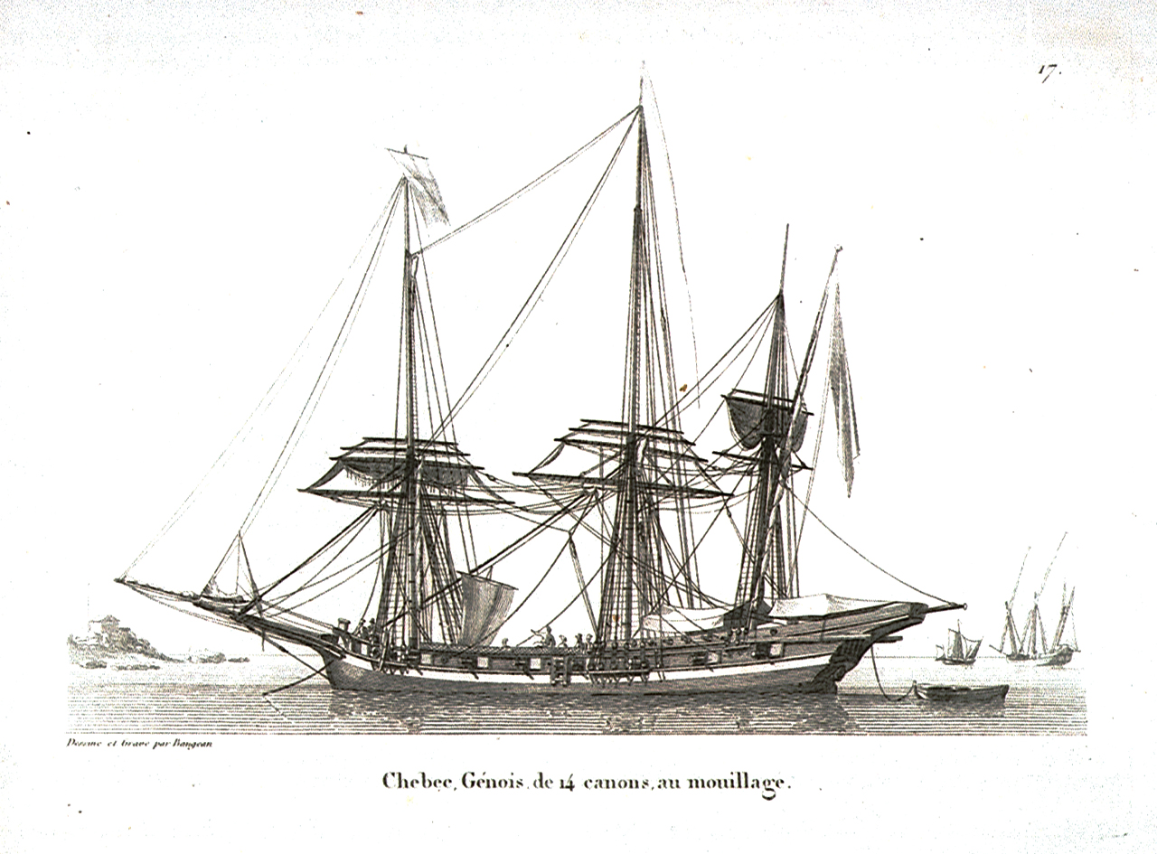 Xebec Genoa, 14 guns, at anchor. 1826.